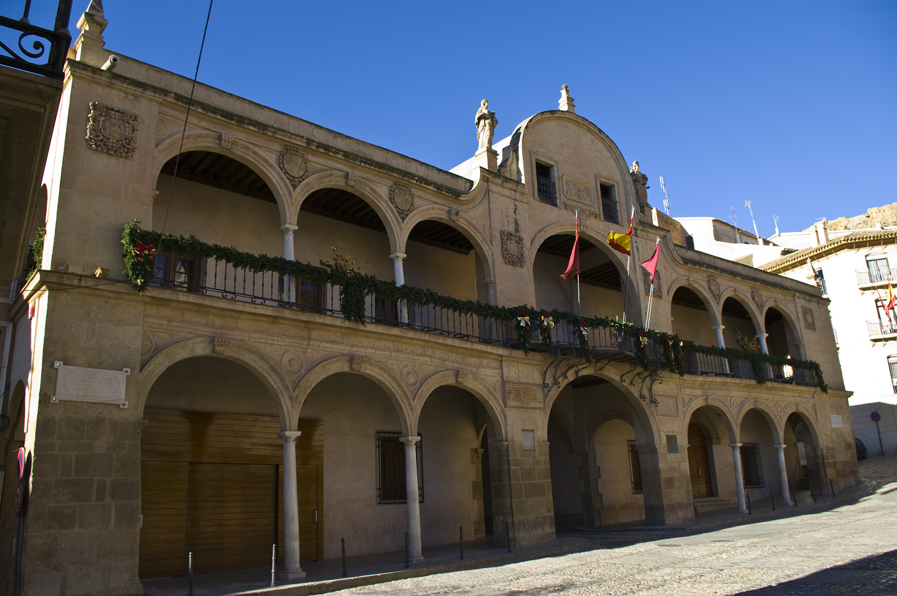 Lorca's town hall (Murcia).